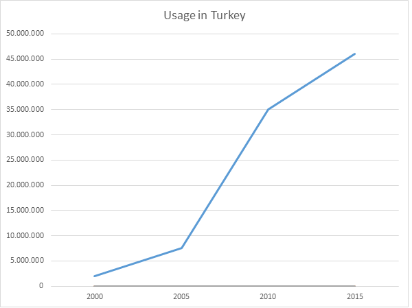 Graph of the usage of the internet in Turkey